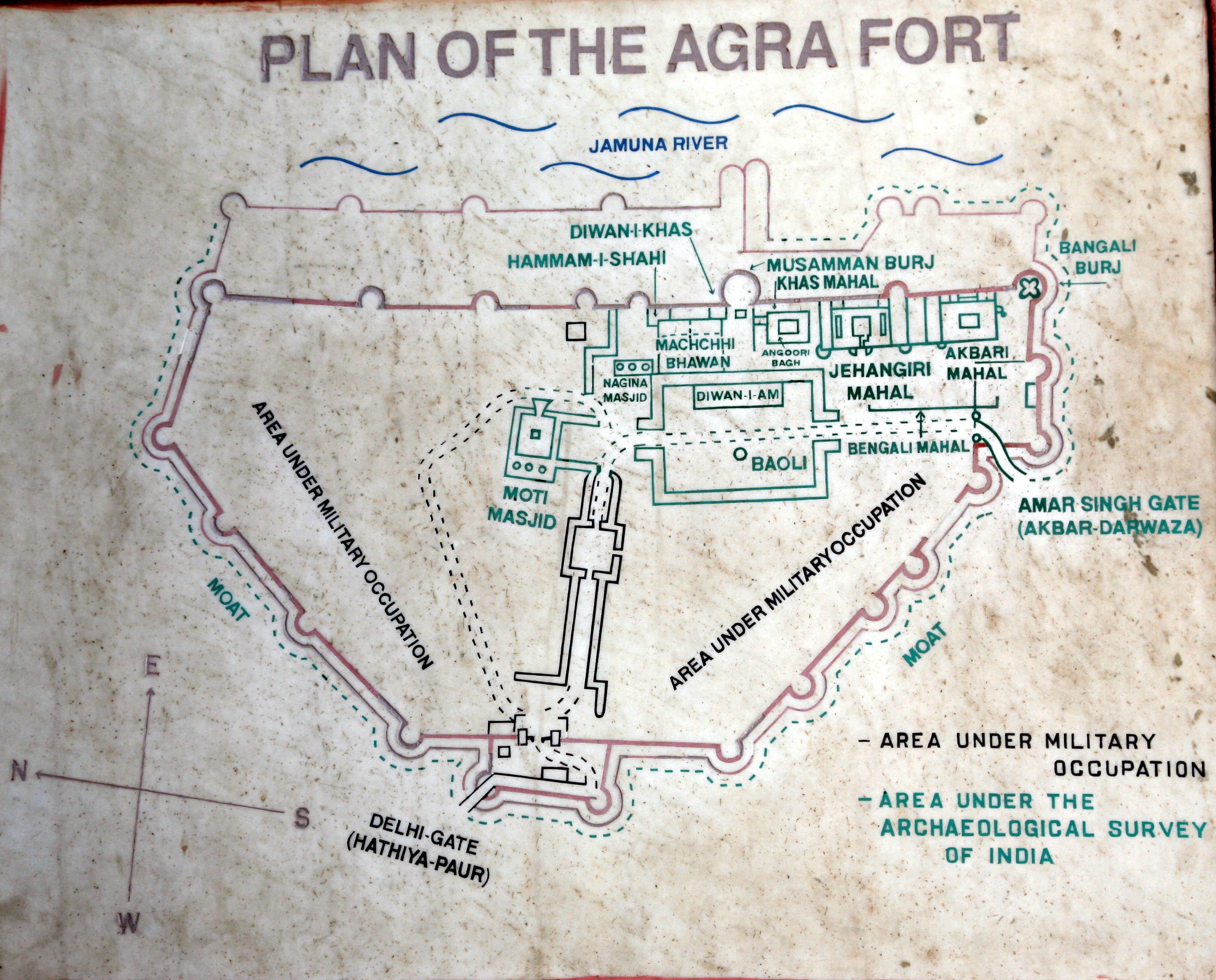 Map of the Red Fort Agra